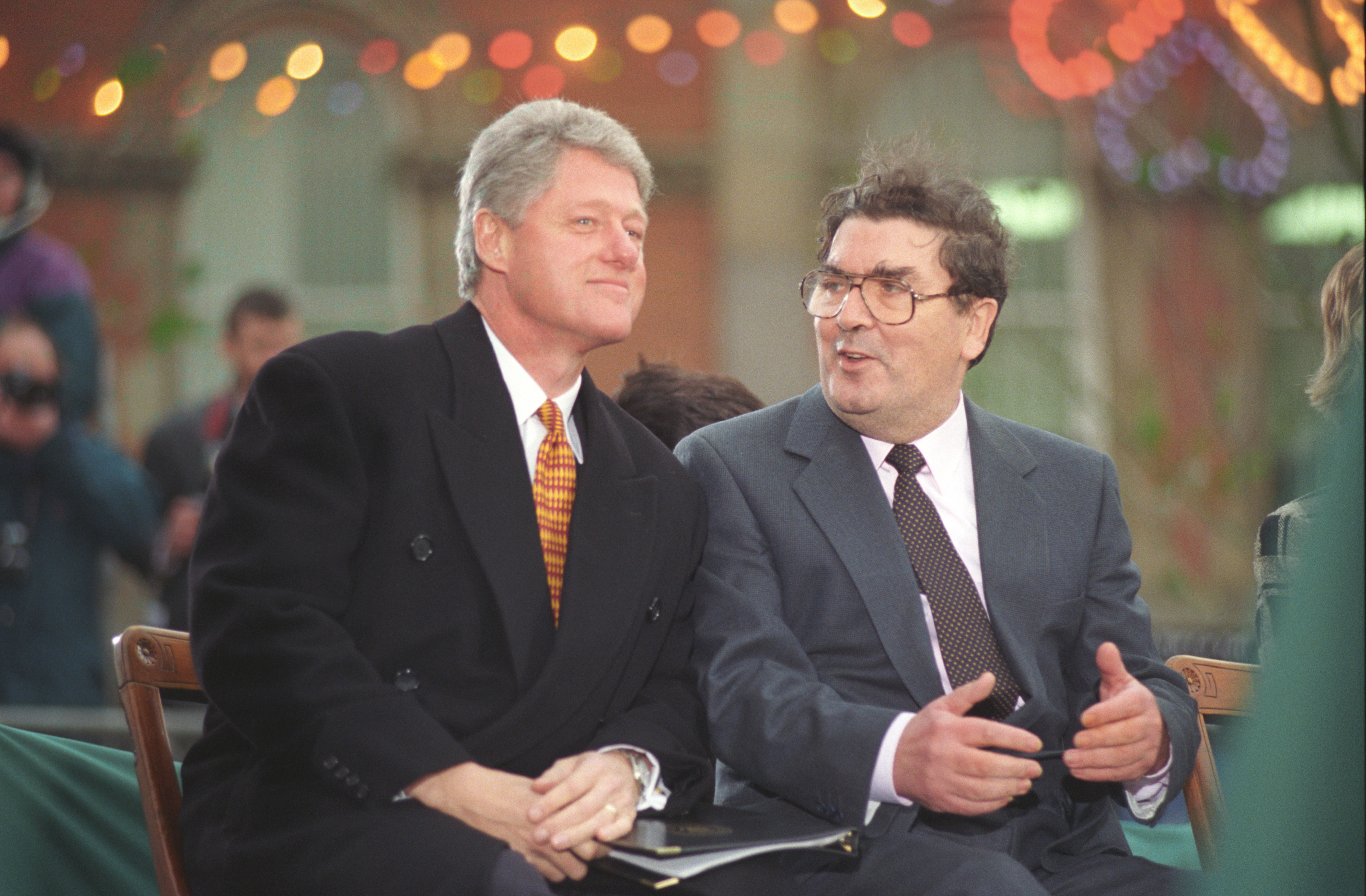 Close-up photo of President Clinton and SDLP leader John Hume.